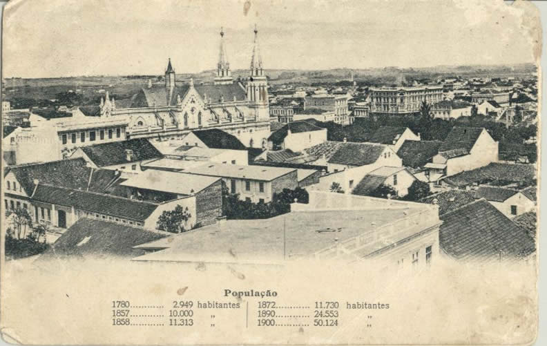 View of Curitiba (Brasil) in 1900.